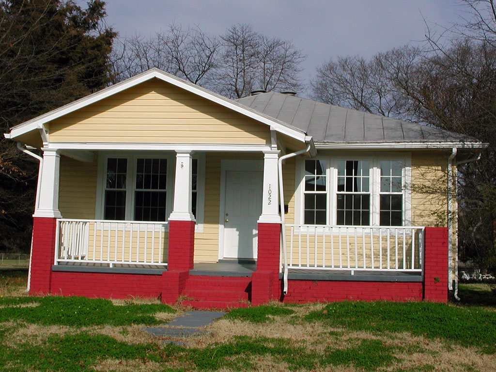 A bungalow in the Fulton Hill neighborhood of Richmond, Virginia, at the corner of Apperson and Northampton streets. Image captured using Nikon digital camera around 11AM, Sunday 14 January 2007.